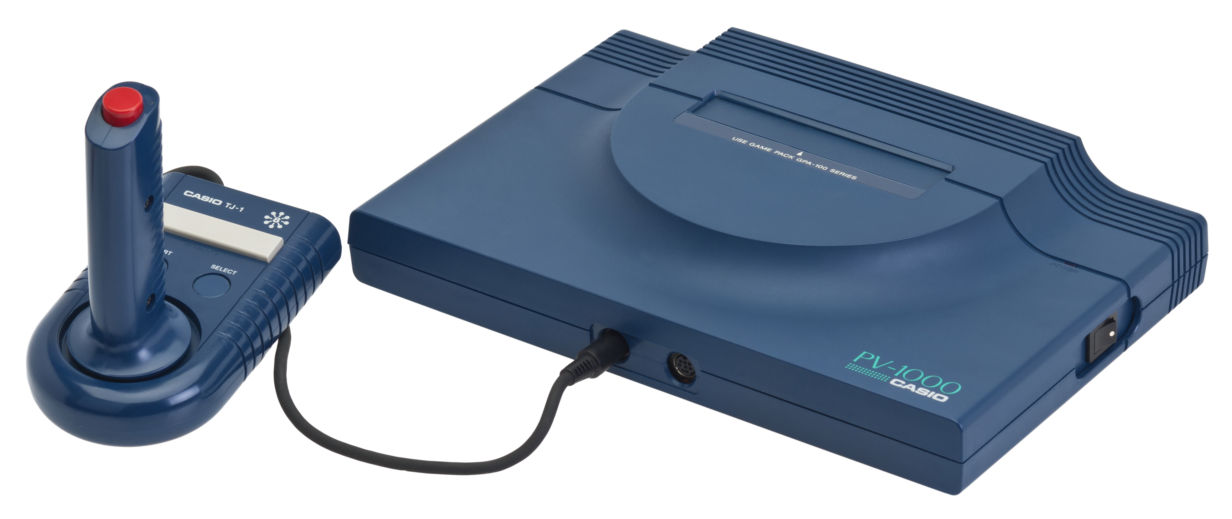 The Casio PV-1000 and controller. A video game console only released in Japan in 1983.